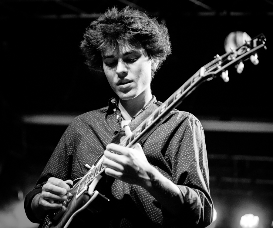 Tom Ibarra with Tom Ibarra in Energimølla. The concert was part of Kongsberg Jazzfestival and took place on 04. July 2018 in Kongsberg. Lineup:Tom Ibarra (guitar)Jeff Mercadié (saxophone)Antoine Vidal (bass guitar)Auxane Cartigny (keyboard)Pierre Lucbert (drums)